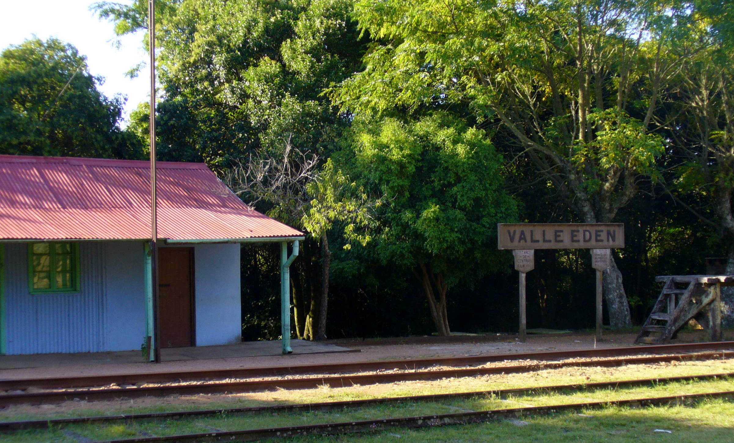 Old Railway Station Eden Valley, trains pass through it linking Montevideo with the city of Rivera. During the nineteenth and early twentieth century this station used to supply water to the boilers of steam locotomoras.